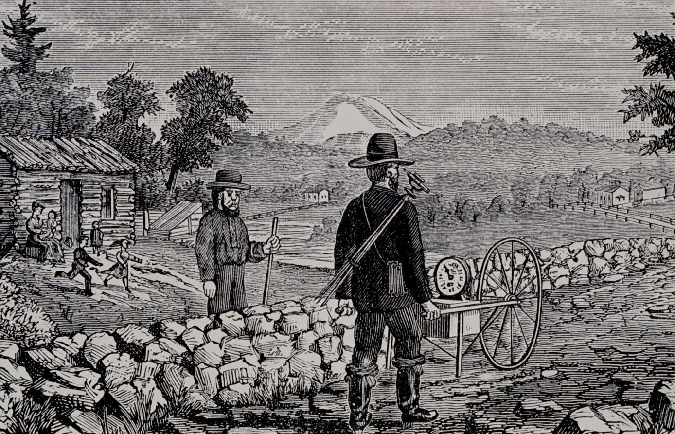 Land surveyor using odometer in United States. A private county surveyor. From NOAA's Historic Coast & Geodetic Survey (C&GS) Collection.